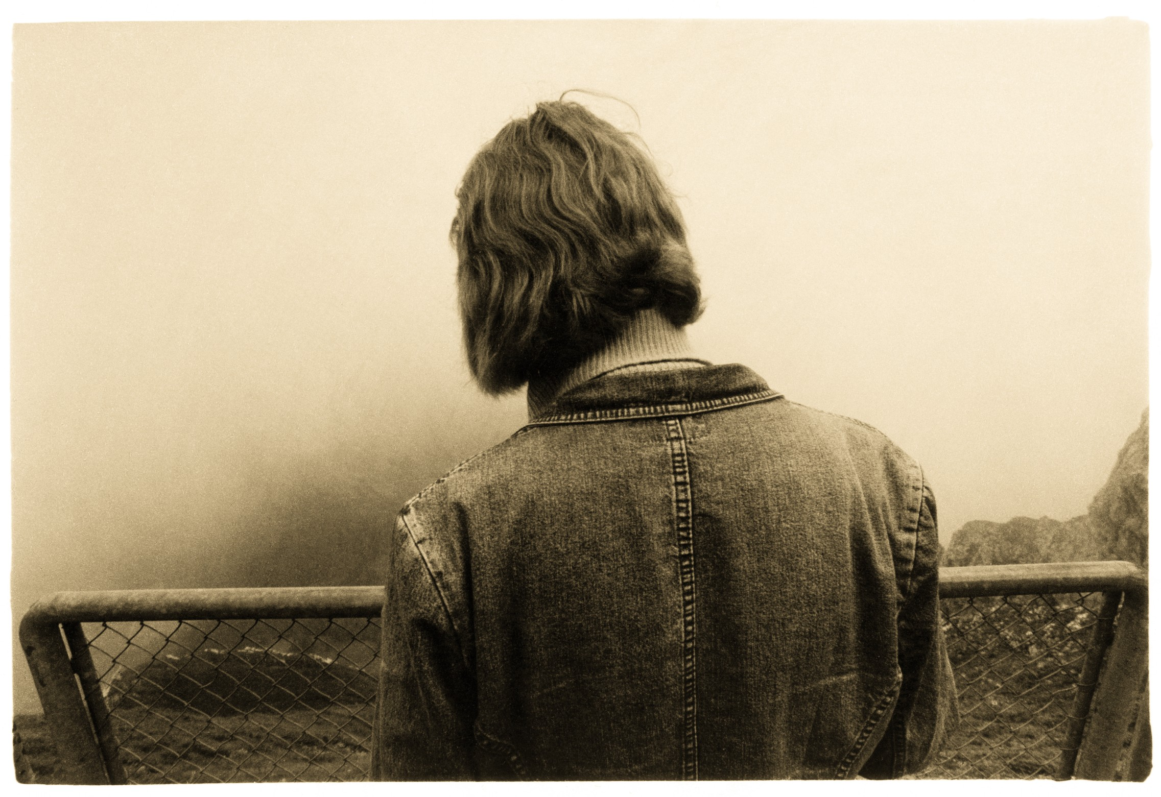 Aleksandras Ostašenkovas, Kitas krantas No145, Lithuania